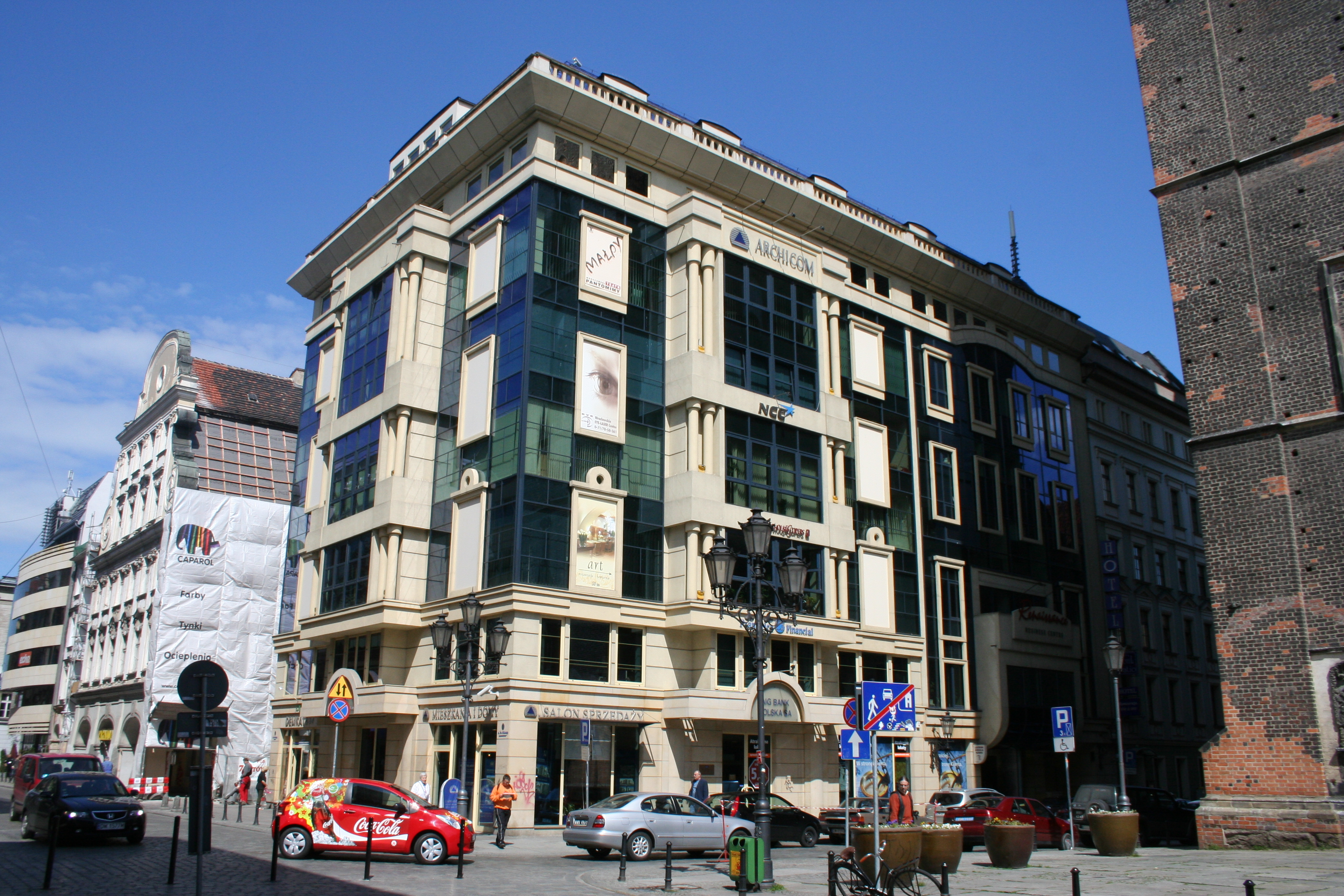 Poland, Wroclaw, building beside St. Elizabeth's Church